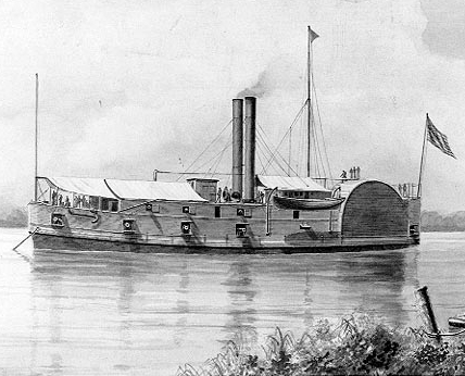 Artist's depiction of the USS Tyler, cropped to show just the Tyler. Original caption for uncropped image: "Wash drawing by F. Muller, circa 1900, depicting Tyler anchored off shore, with two mortar rafts tied up to the river bank, in the Mississippi River area during the Civil War."